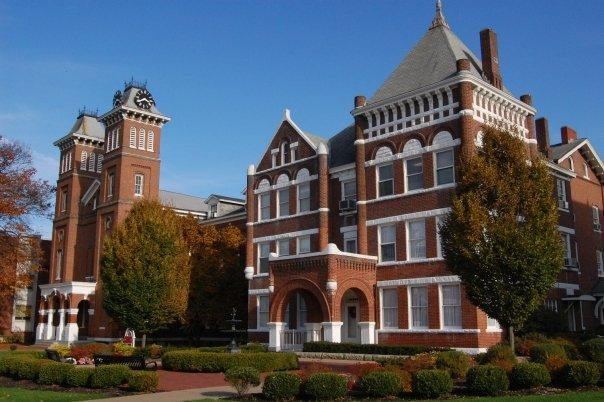 For use on the California University of PA wikipedia page